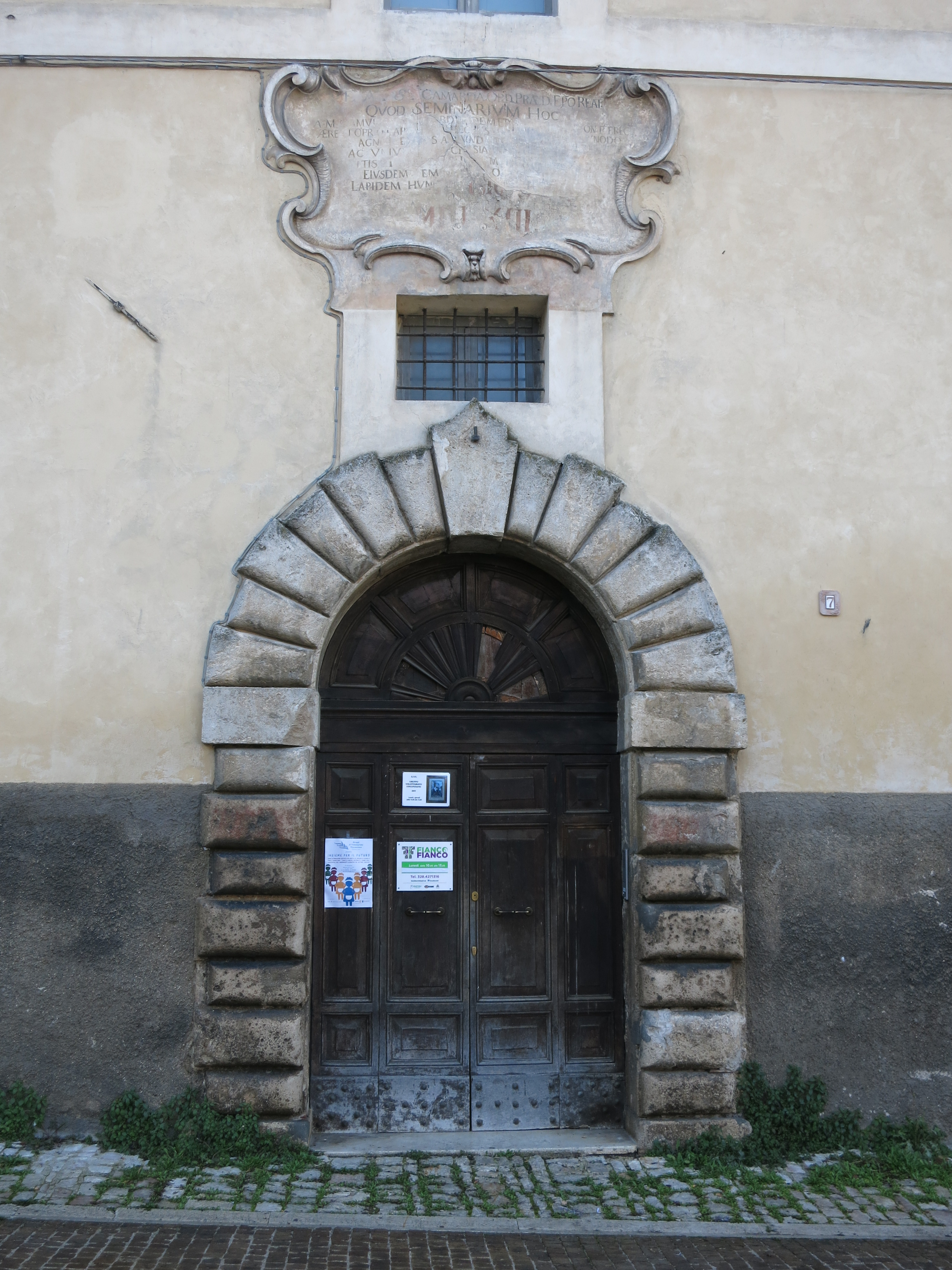 Seminary Palace - Rieti, Lazio, Italy